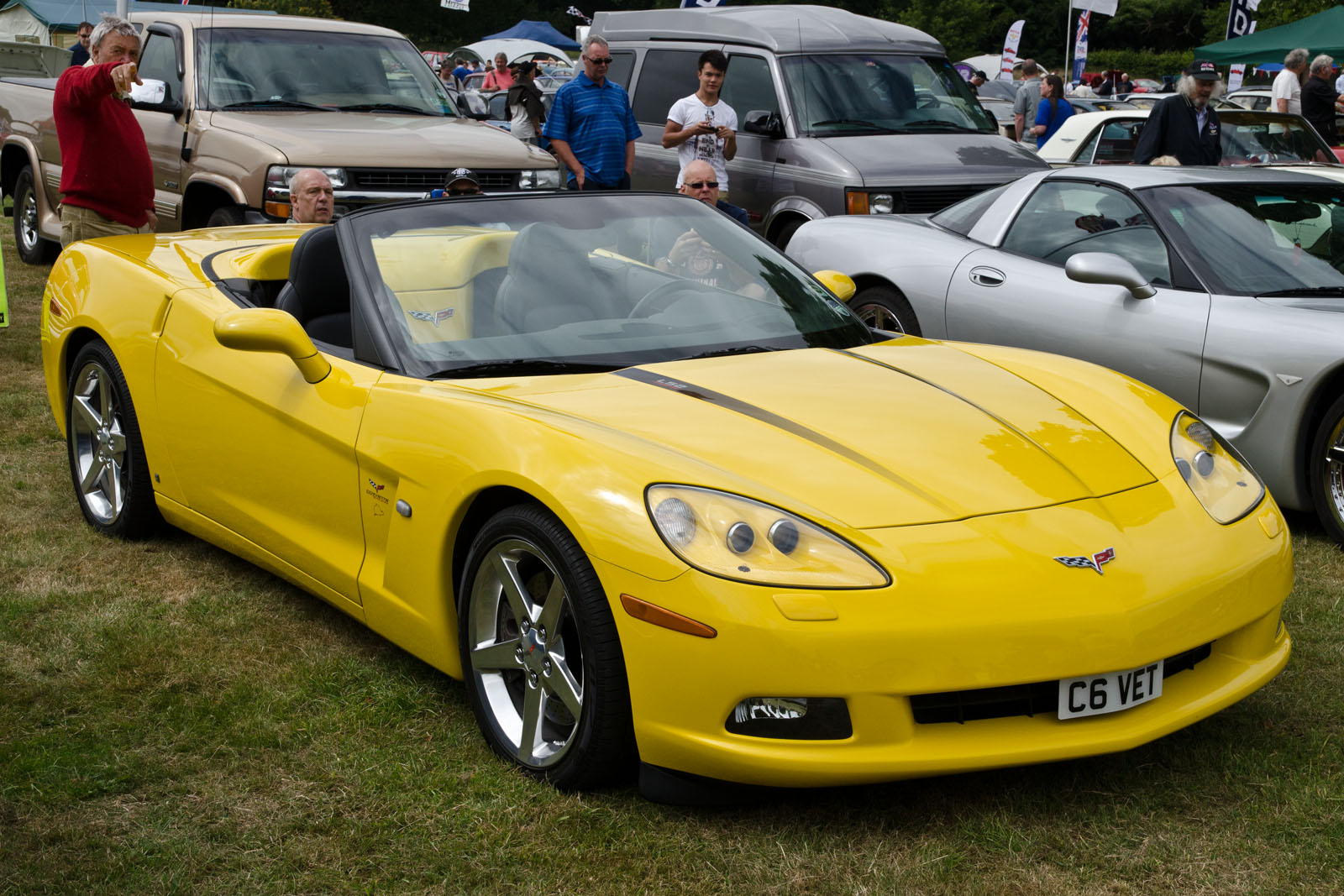 Bodelwyddan Classic Car Show 21/07/2013